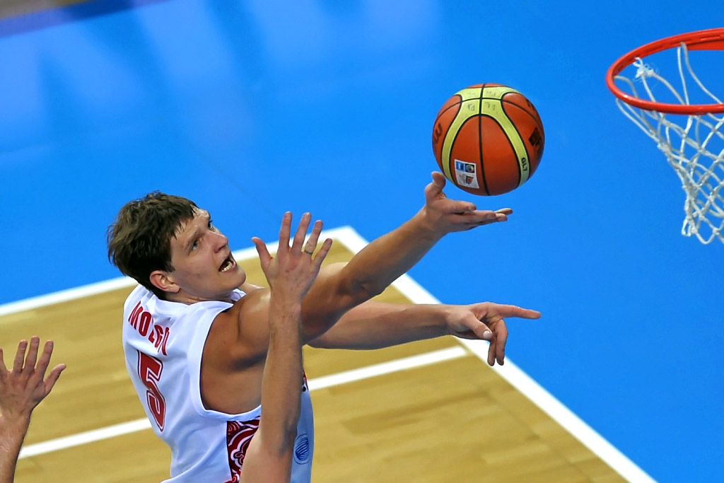 Timofey Mozgov Russian basketball player